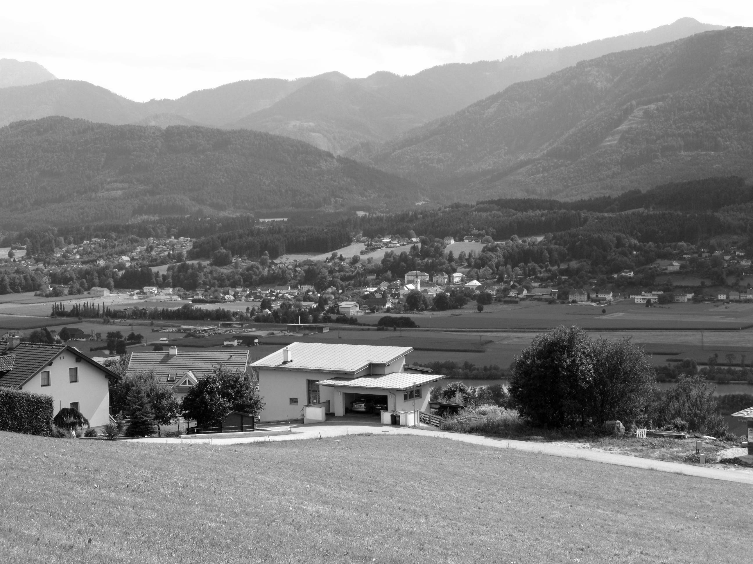 Paternion around 2008 district Villach-Land in Carinthia / Austria / EU. North view from the opposite side of the valley. Recorded at Ferndorf / Sonnwiesen.